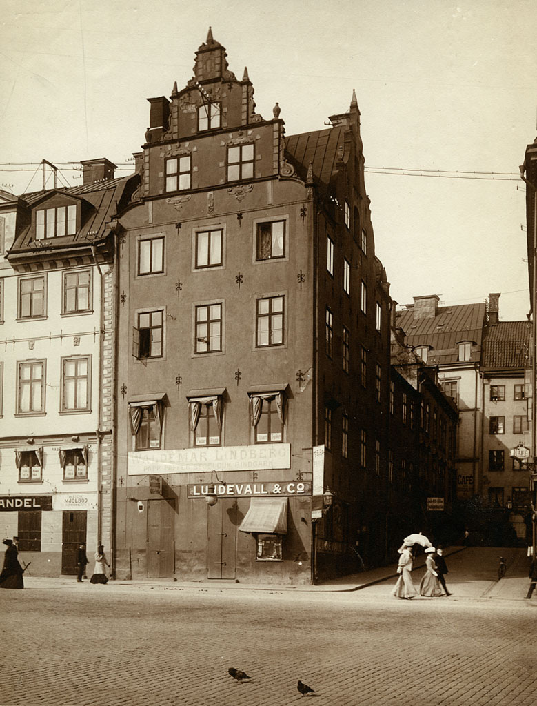 The Funck House at Kornhamnstorg square in the Old Town